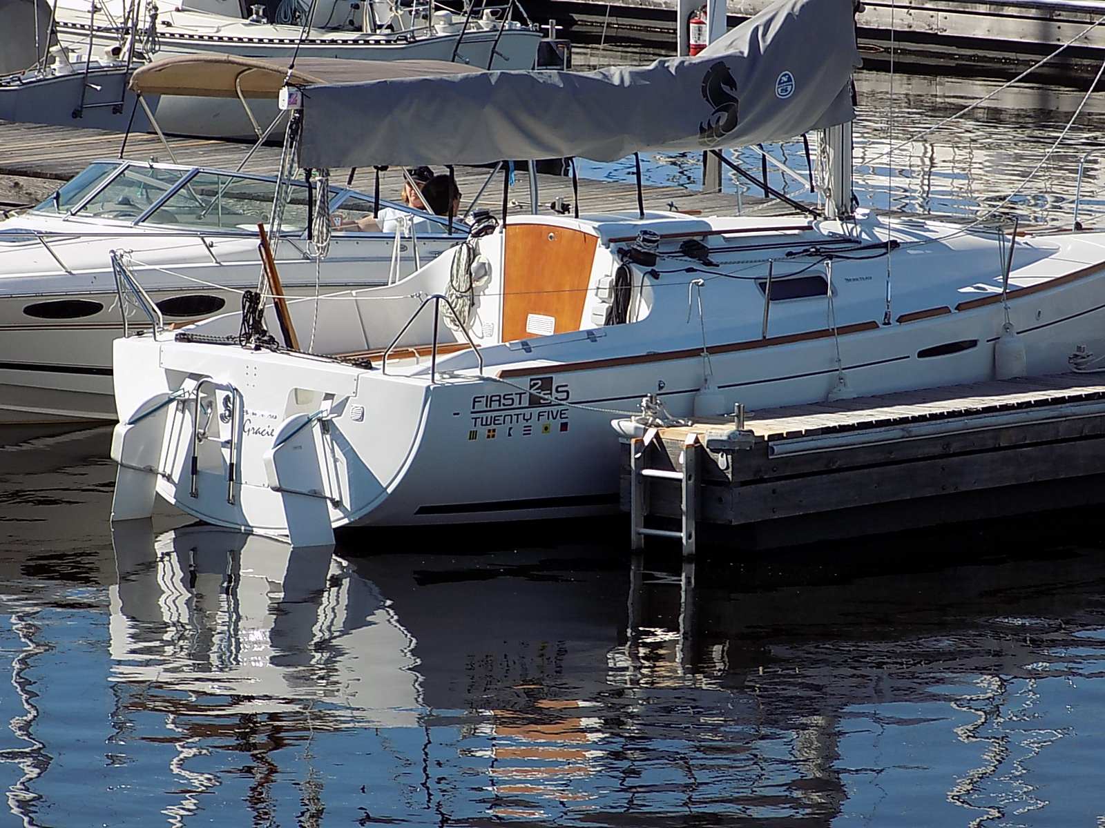 Stern view of a Beneteau First 25S sailboat named Gracie, showing the twin rudders fitted.